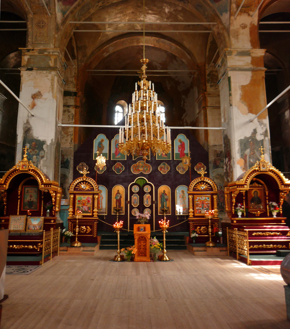 On the right is the cancer with the relics of St. Dalmata Isetsky